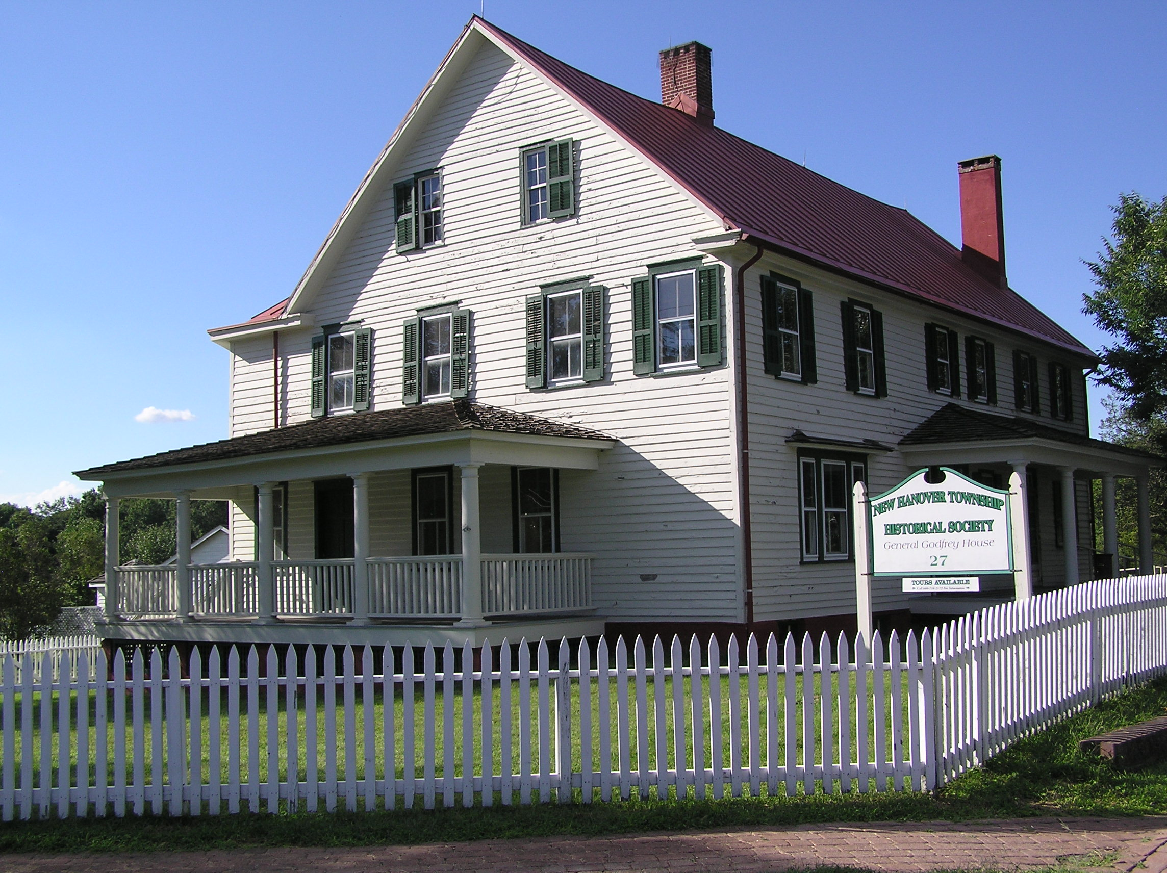 Gen. Edward S. Godfrey House, 27 Main Street in Cookstown, NJ. View from the intersection of Cookstown - Wrightstown Road and Main Street.